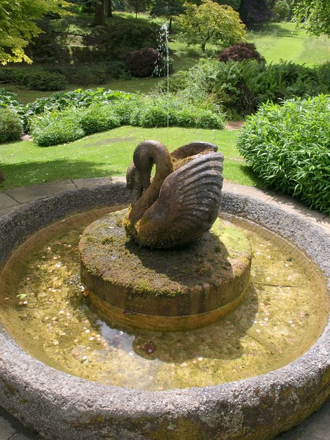 Swan Fountain, Dartington. Willi Soukop's granite Swan Fountain dates from 1950, and seems to be popular as a wishing fountain / well. "In November 2006 the "Fountain Money Mountain" reported that tourists throw just under 3 million pounds per year into wishing wells". The fountain also appears in 1010931 and 270267.